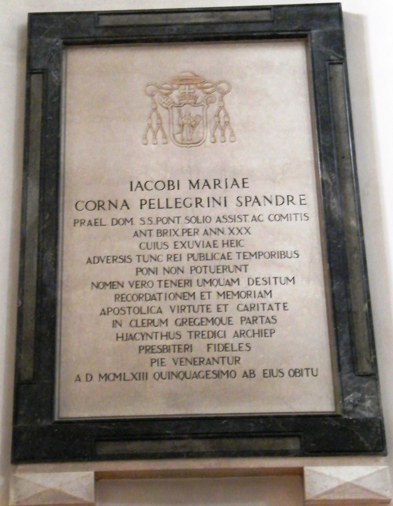 Giacomo Maria Corna Pellegrini. Grave in Duomo Nuovo, Brescia.